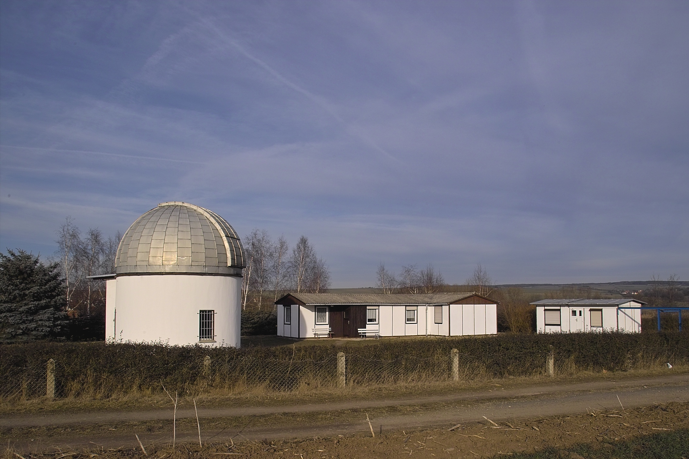 Observatory of Kirchheim/Thuringia in Germany